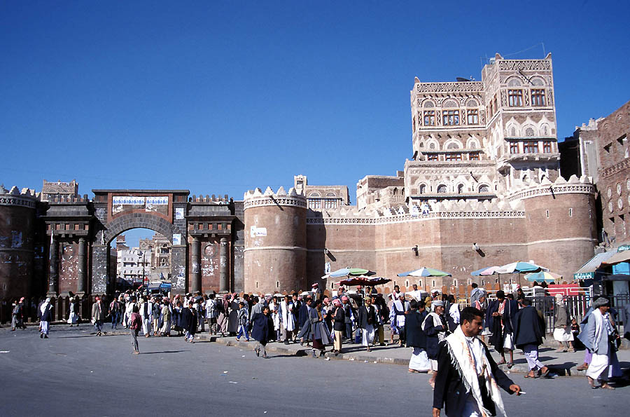 The 1000-year old Bab Al-Yemen (the Gate of Yemen) at the city centre of the capital Sana'a.